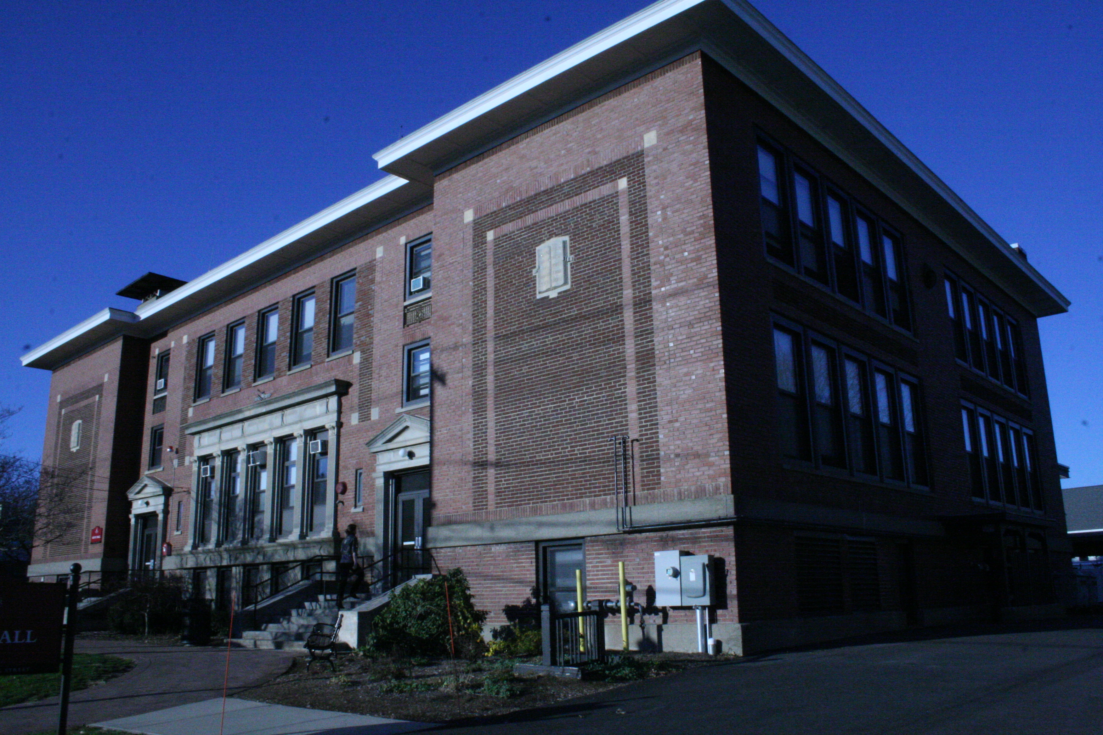 Hunt Hall at Bridgewater State University 26 School St Bridgewater Ma